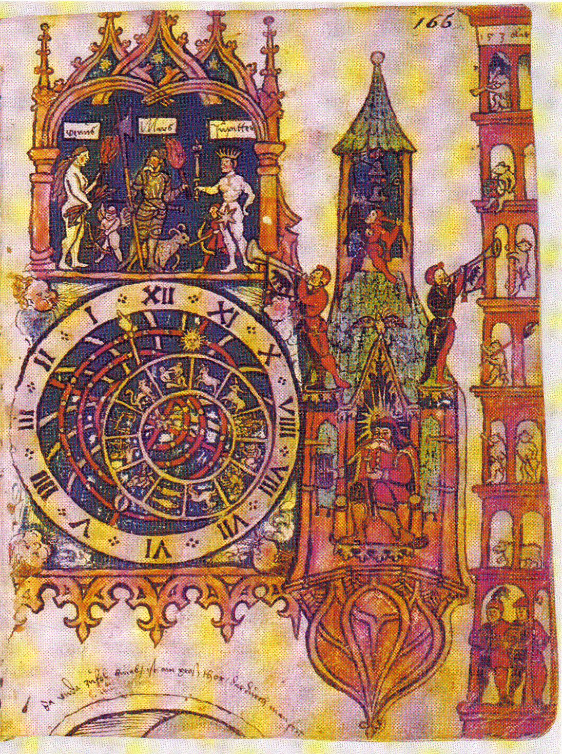 Astronomical clock of the Zytglogge tower in Bern, Switzerland.